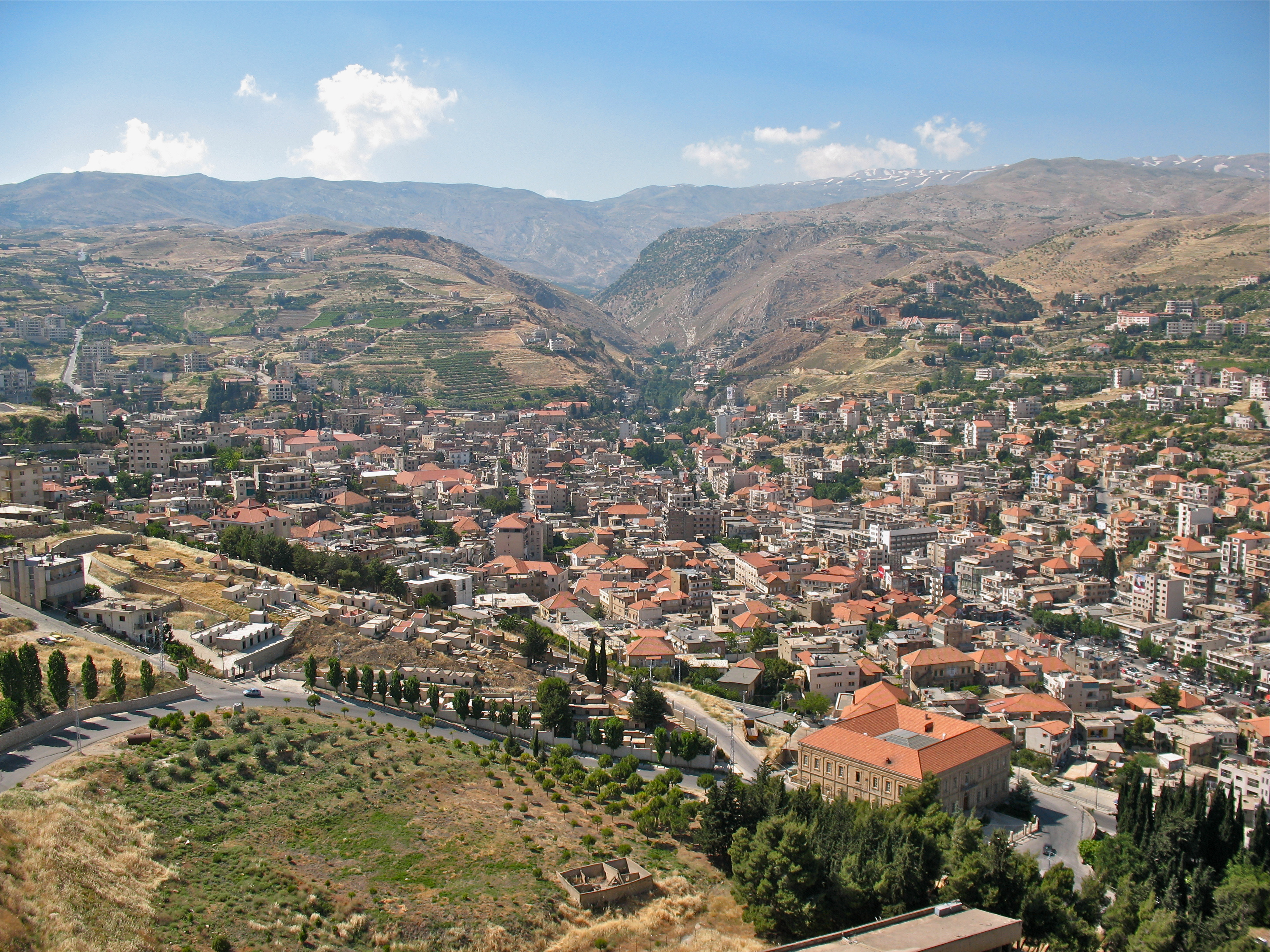 City of Category:Zahlé — at the southern end of the Mount Lebanon Range, eastern Lebanon.